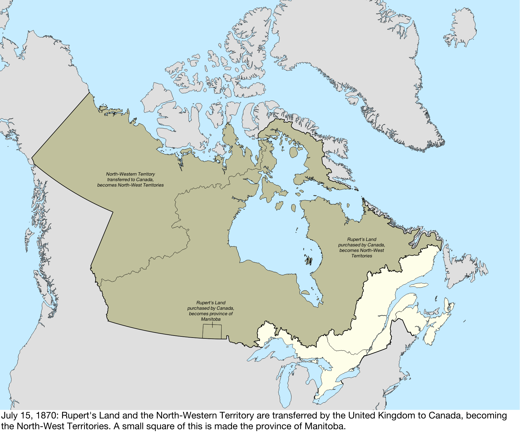 Map of the change to Canada on July 15, 1870.